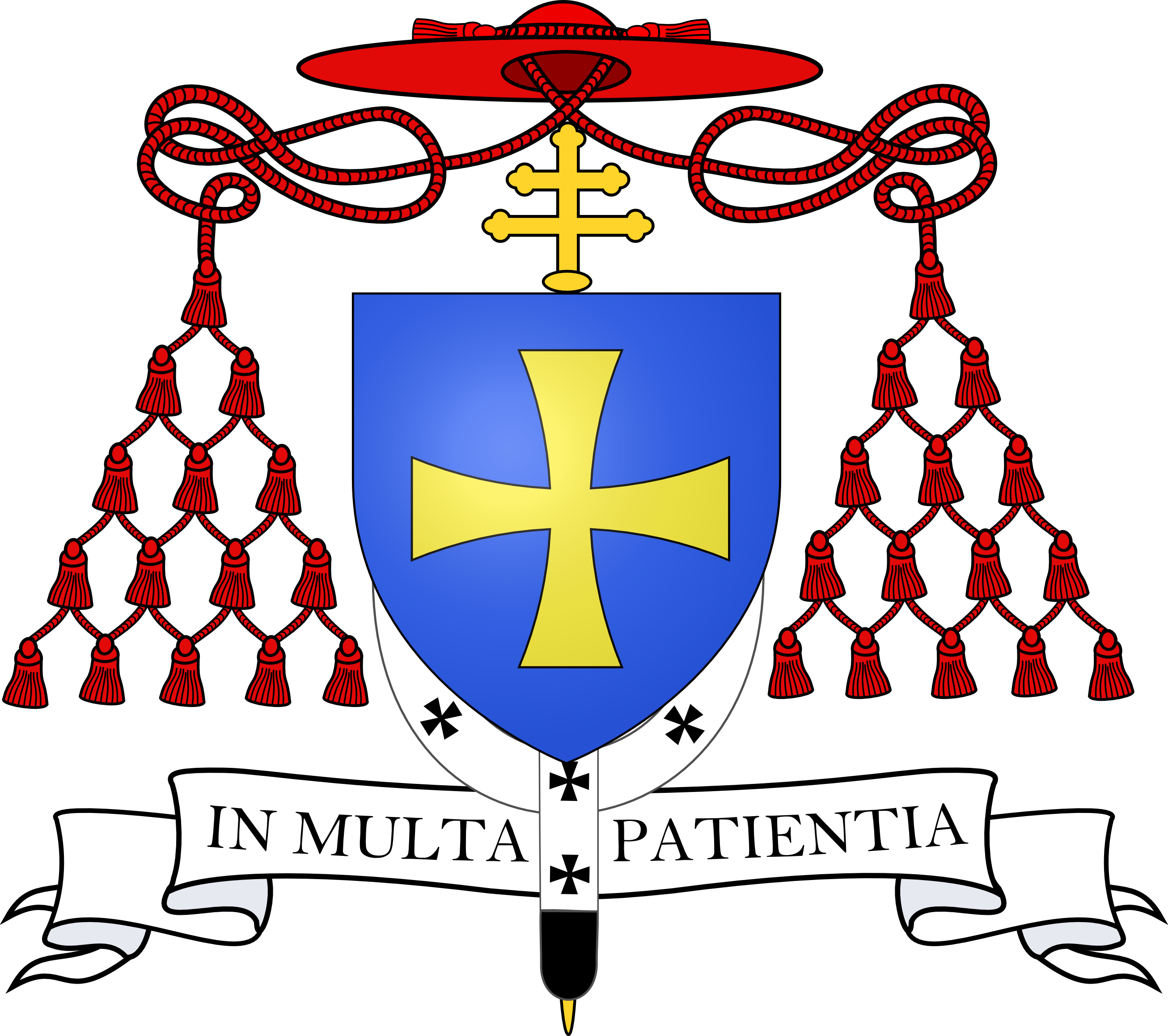 Coat of arms of Joseph-Alfred Cardinal Foulon Archbishop of Lyon France